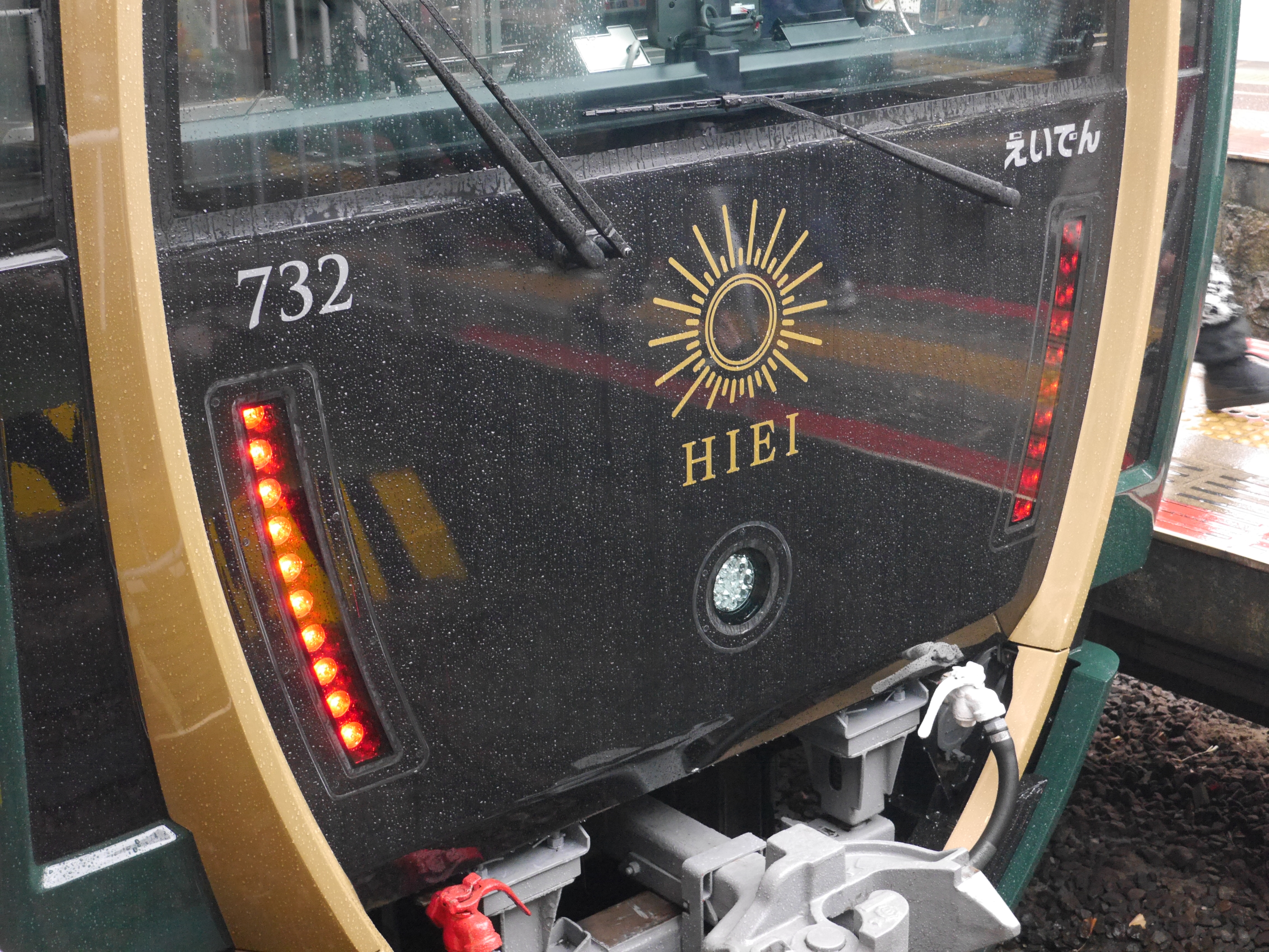 LED tail lamps on Eizan Electric Railway "Hiei"